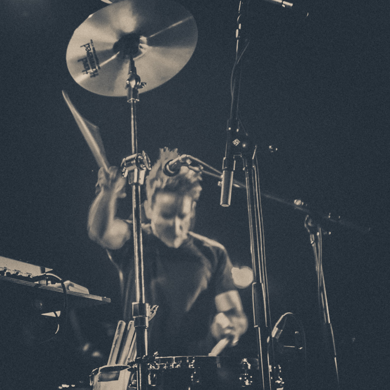 Jamie Stewart of Xiu Xiu at L'Autre Canal, Nancy, France, 09 May 2008